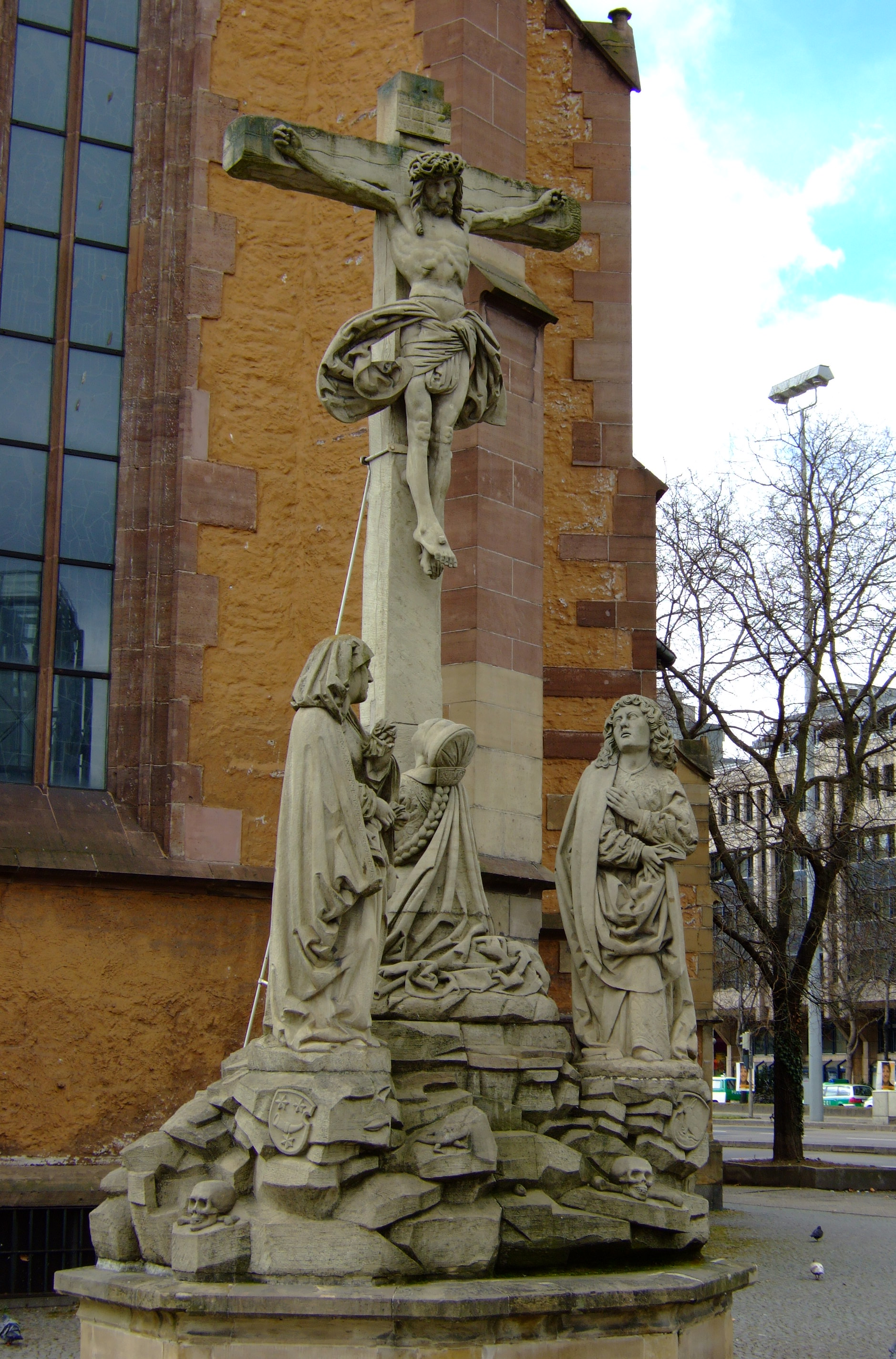 Sculptures By Hans Seyffer (1501) Of The Church "Leonhardskirche" Of The City Stuttgart